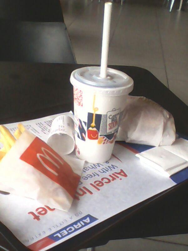 frech fies cone pizza and coke